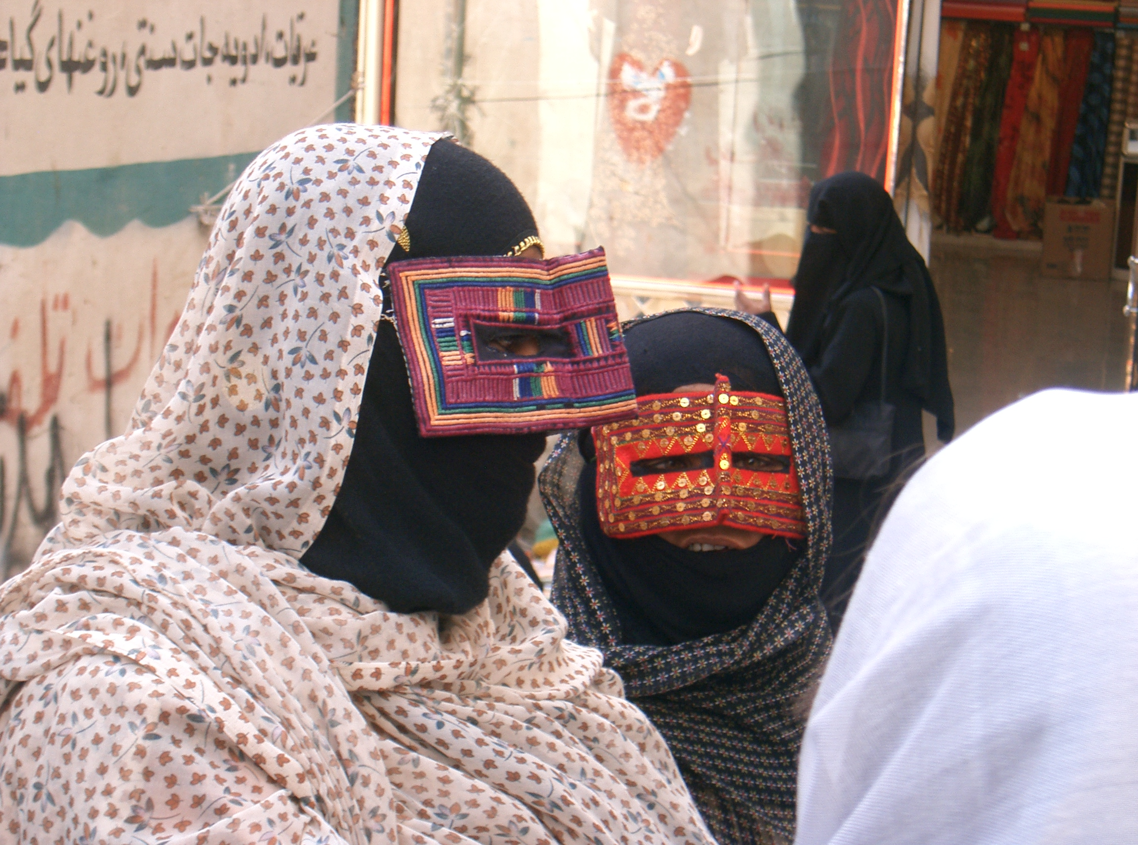 Women wearing battula in Bandar Abbas (south Iran).